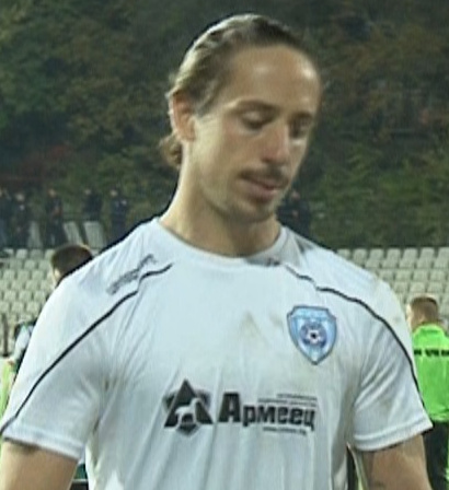 Swiss football goalkeeper Miodrag Mitrovic